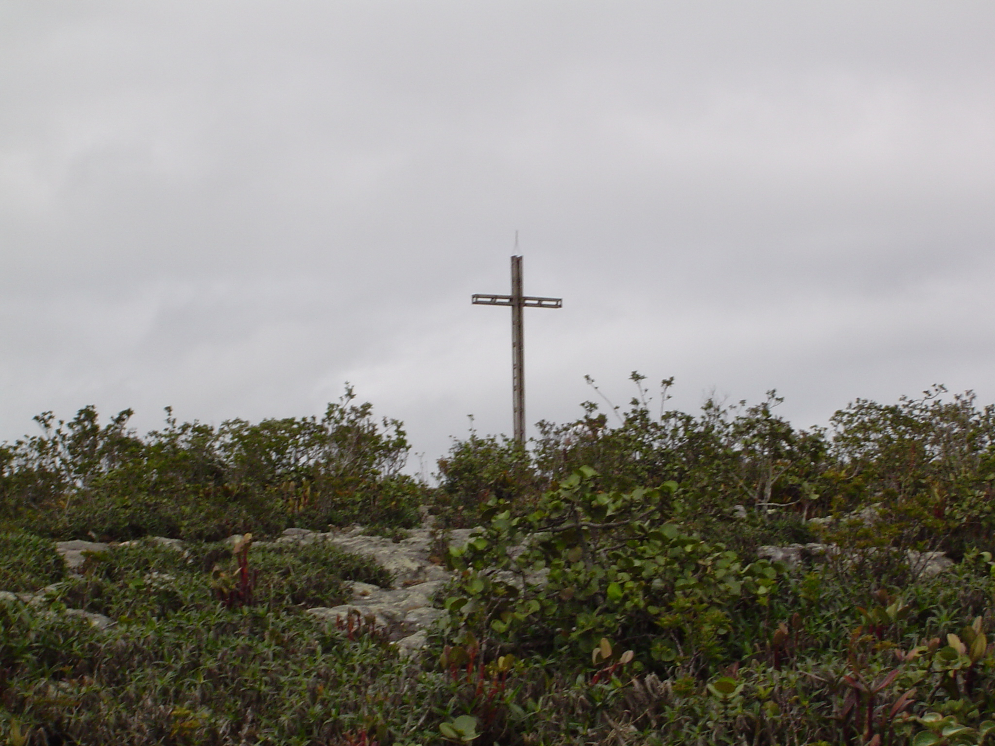 The cross of the "Morro do Pai Inácio" in Chapada Diamantina